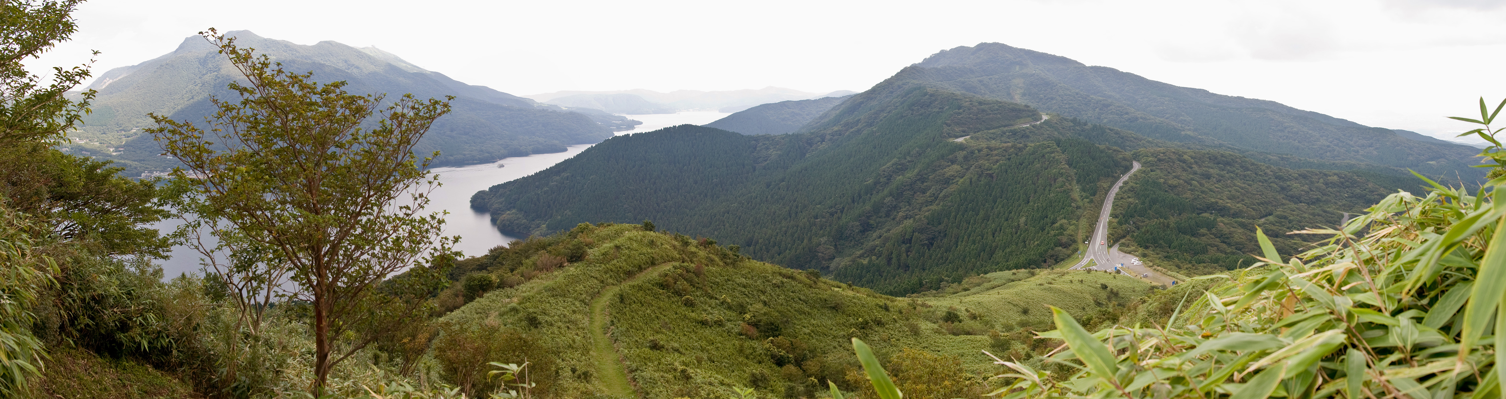 Ashinoko Skyline in Mt.Hakone, Kanagawa and Shizuoka Prefectures, Honshu, Japan.